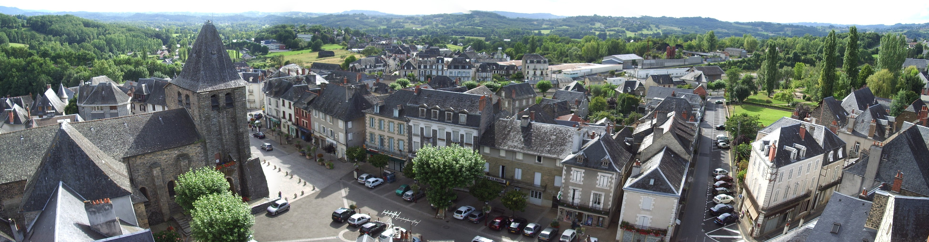 Allassac (Corrèze - France) - Allègre square and St Jean-Baptiste church (from Cesar tower)